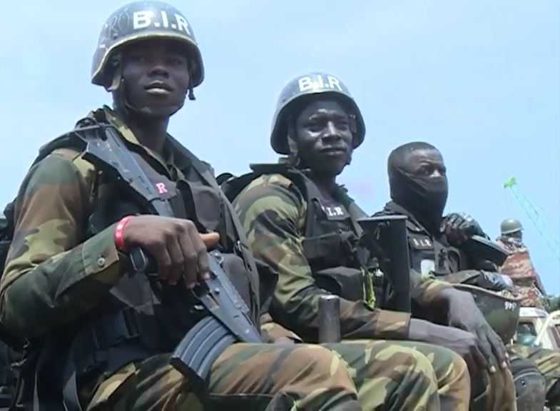 Cameroon military (from the Rapid Intervention Battalion, BIR) deployed to protect schools and the population in Bamenda, July 21, 2019. (Photo: M. Kindzeka / VOA)